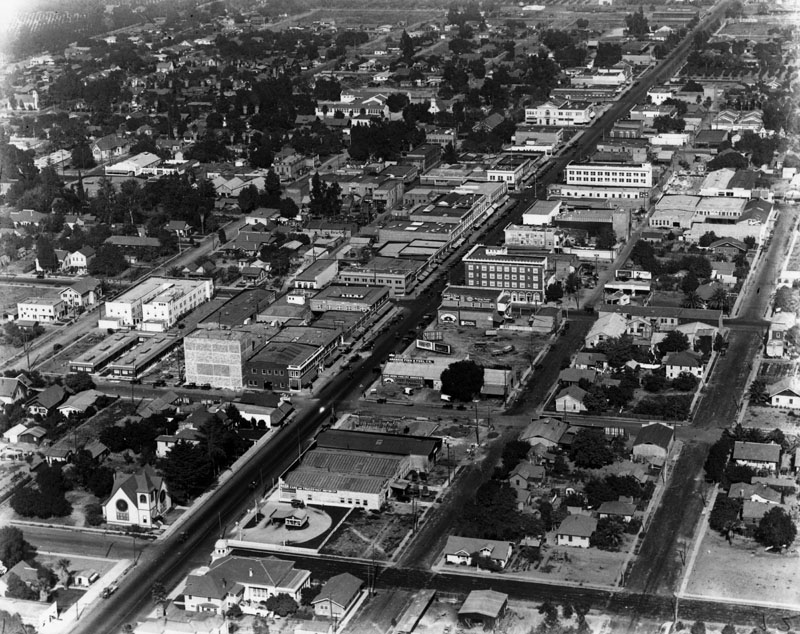 Aerial view of commercial and residential areas of Anaheim.